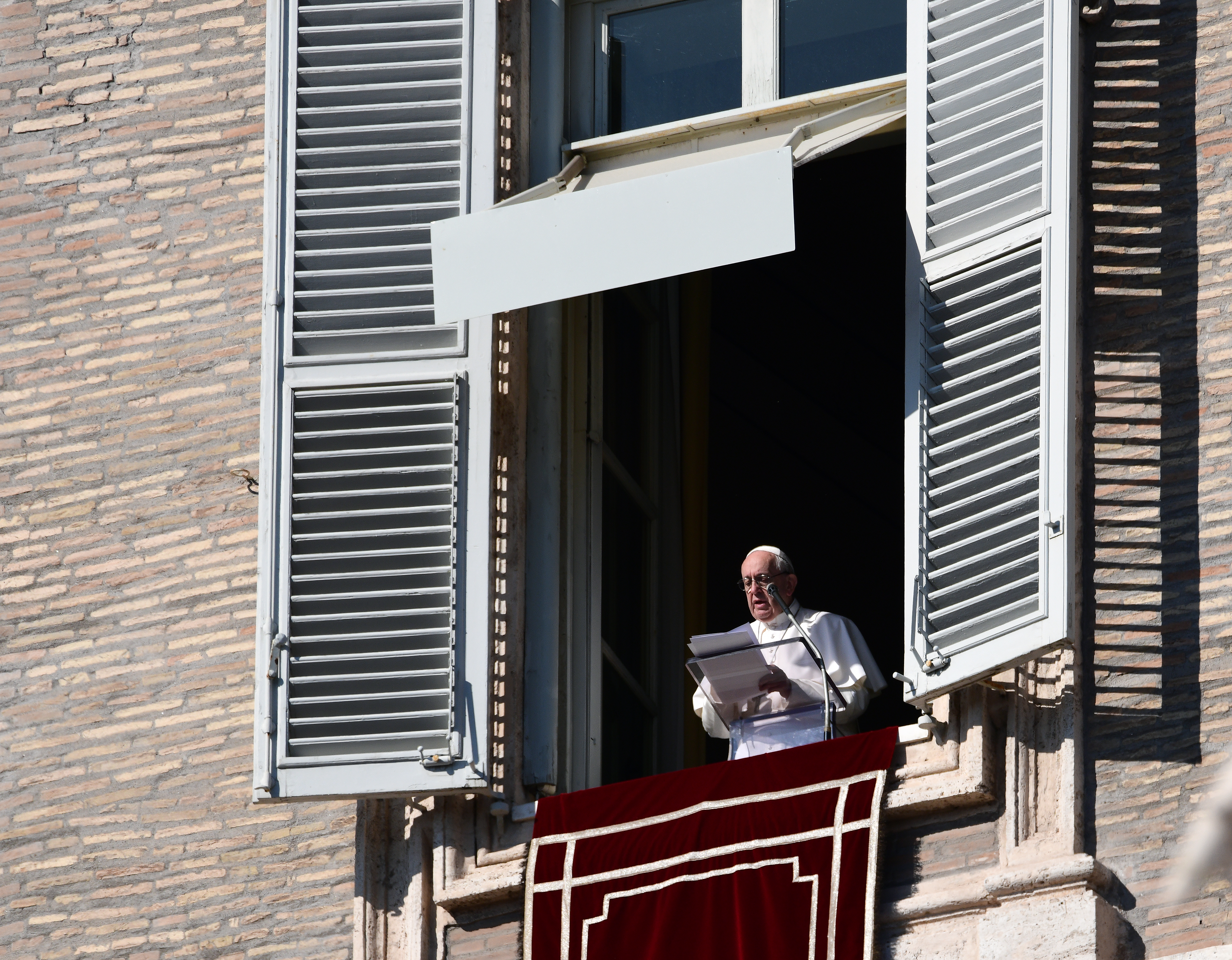 Papa Francesco Angelus 2018